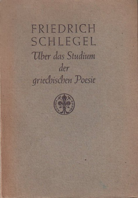 Book cover of Friedrich von Schlegel "Uber das Studium der griechischen PoesieFriedrich von Schlegel, Über das Studium der griechischen Poesie, 1797